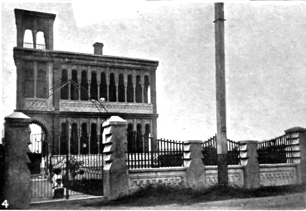 Villa in Shanghai, designed by Lafuente & Wooten